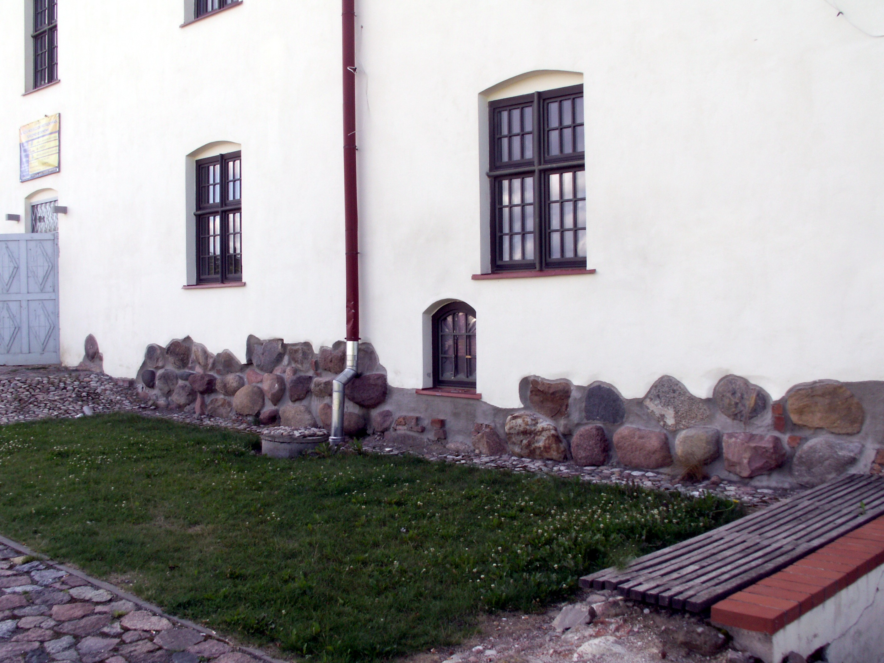 Kražiai collegium